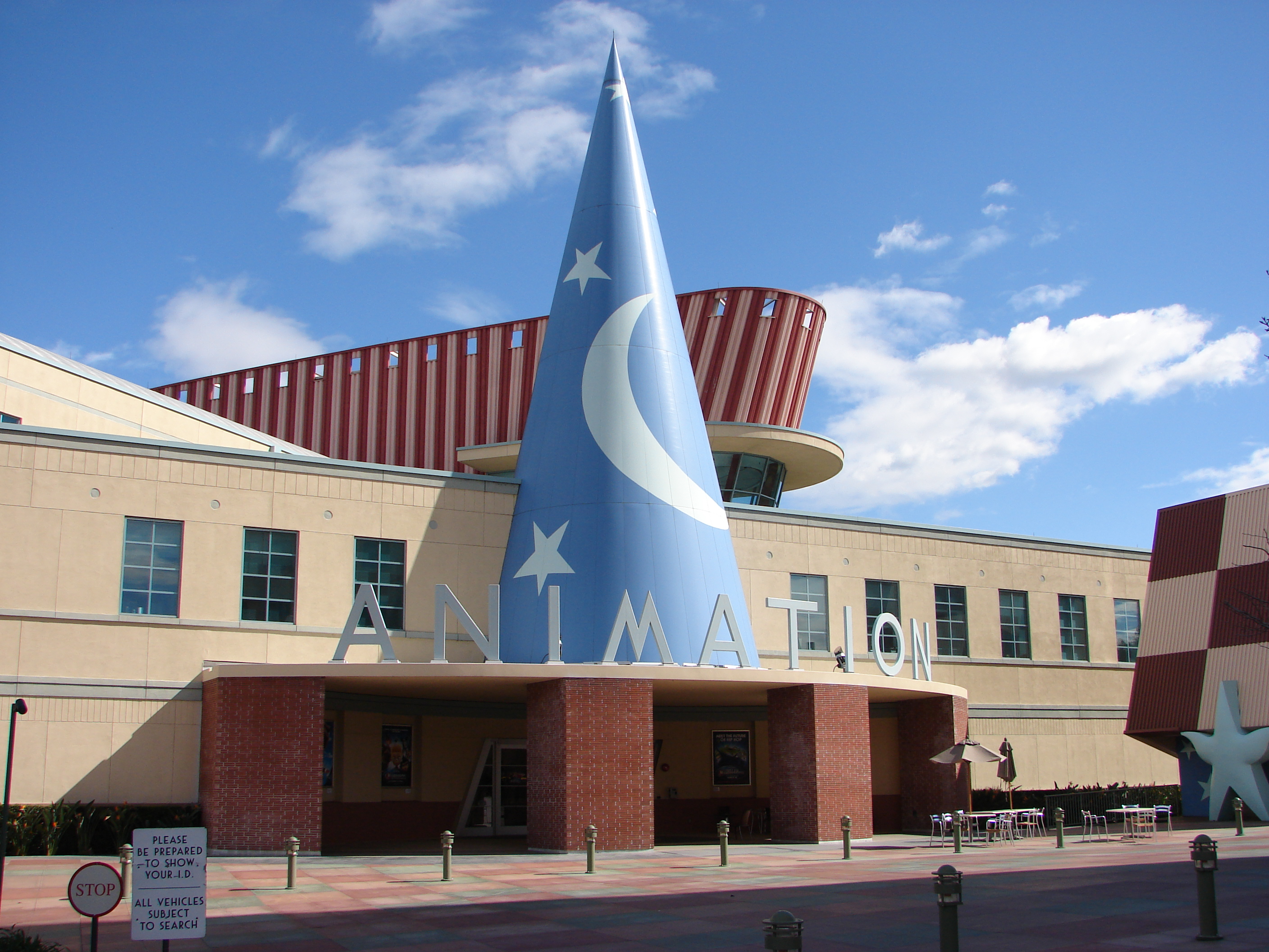 Roy O. Disney Animation Building